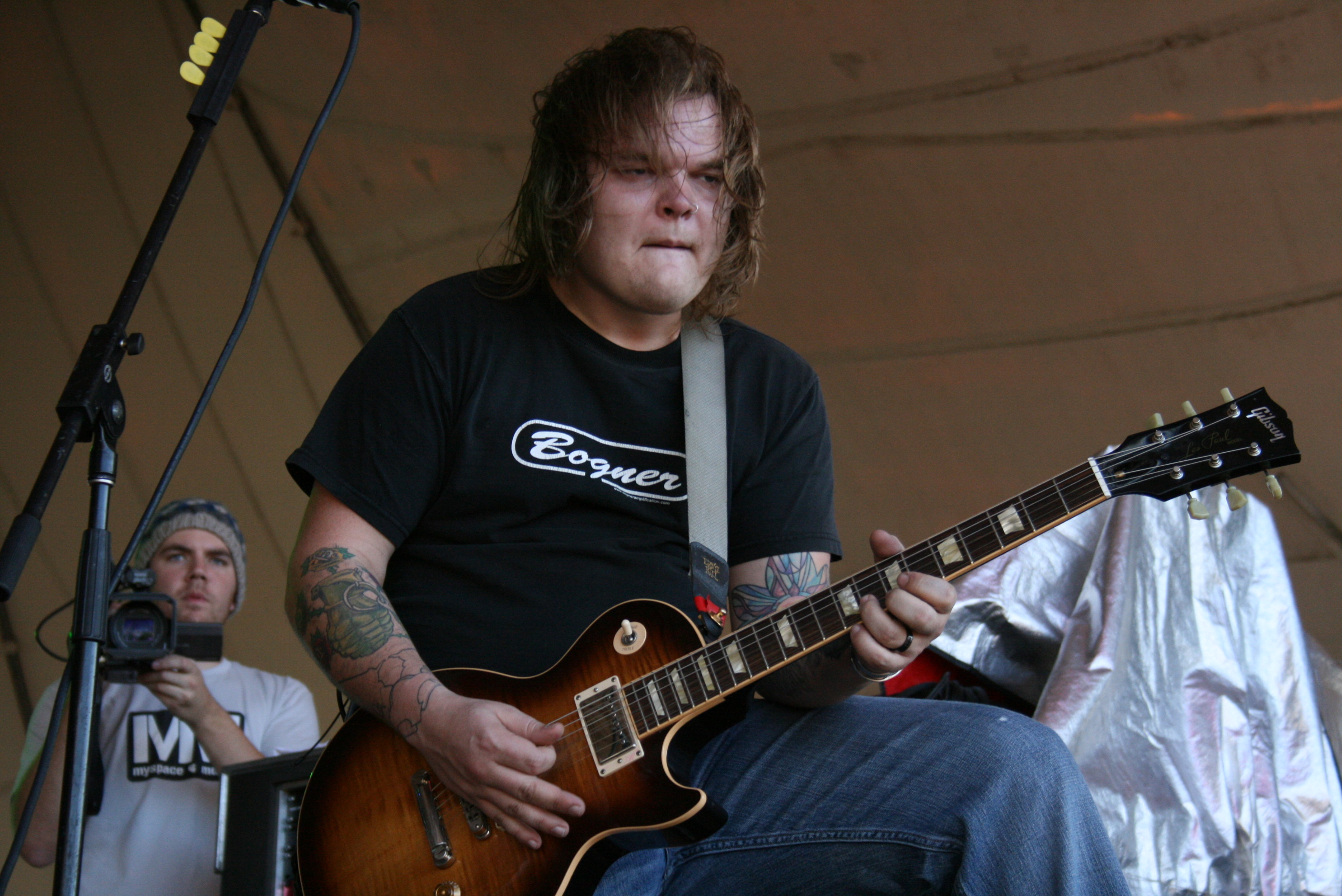 Red Jumpsuit Apparatus guitarist Matt Carter live in 2006 at Jacksonville